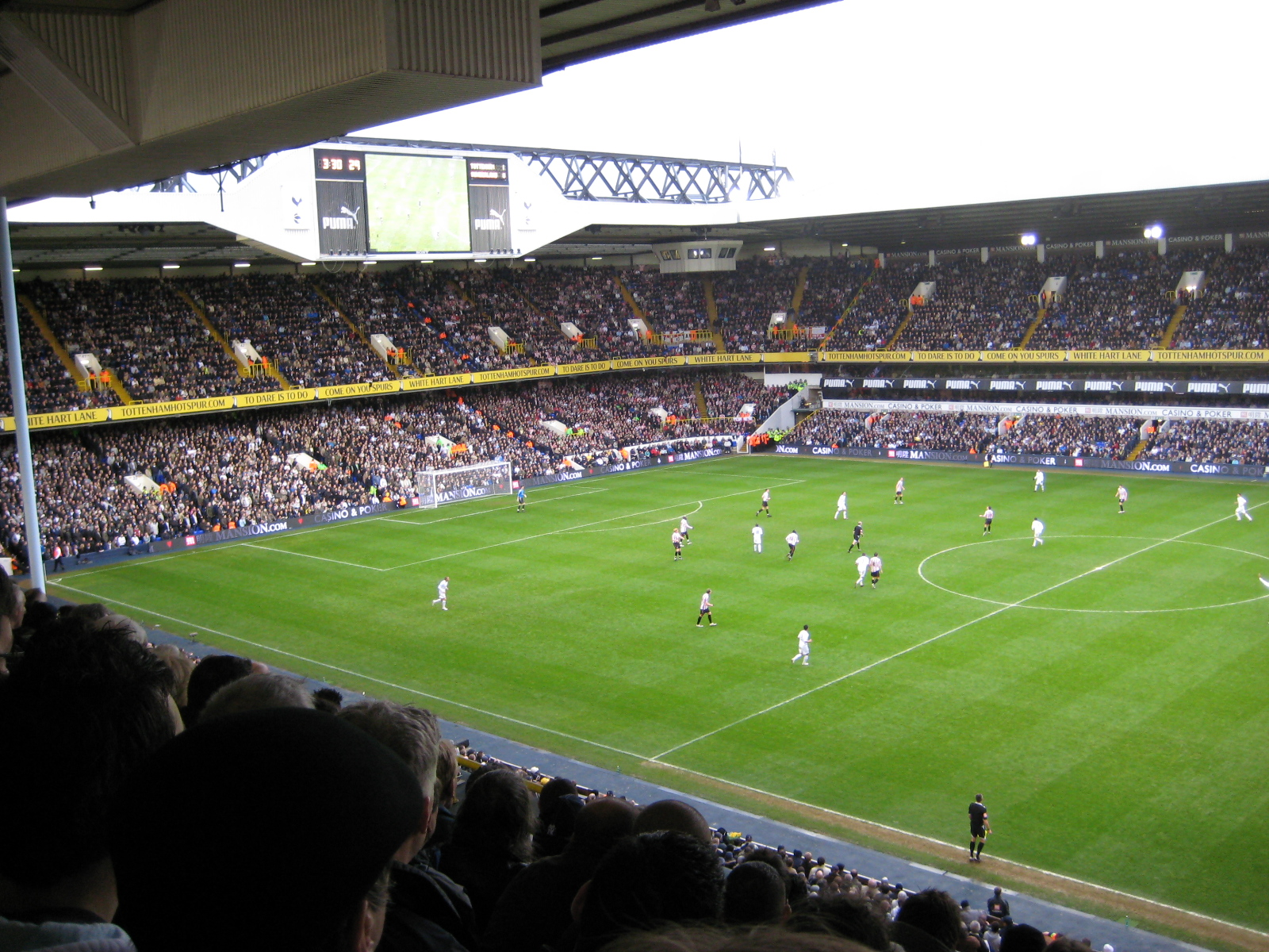 White Hart Lane